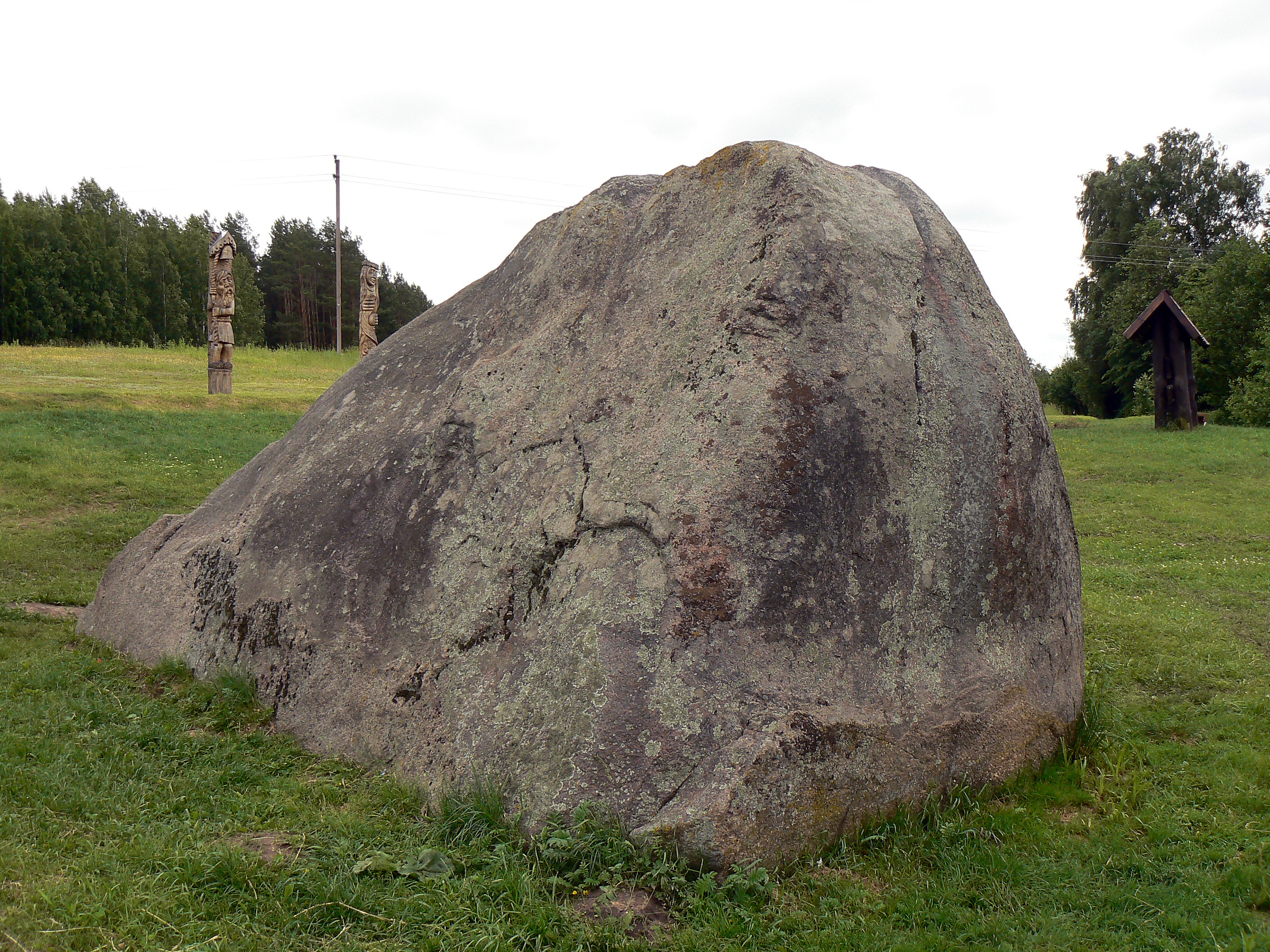 "Devil Stone" in Švendubrė village, Liethuania.